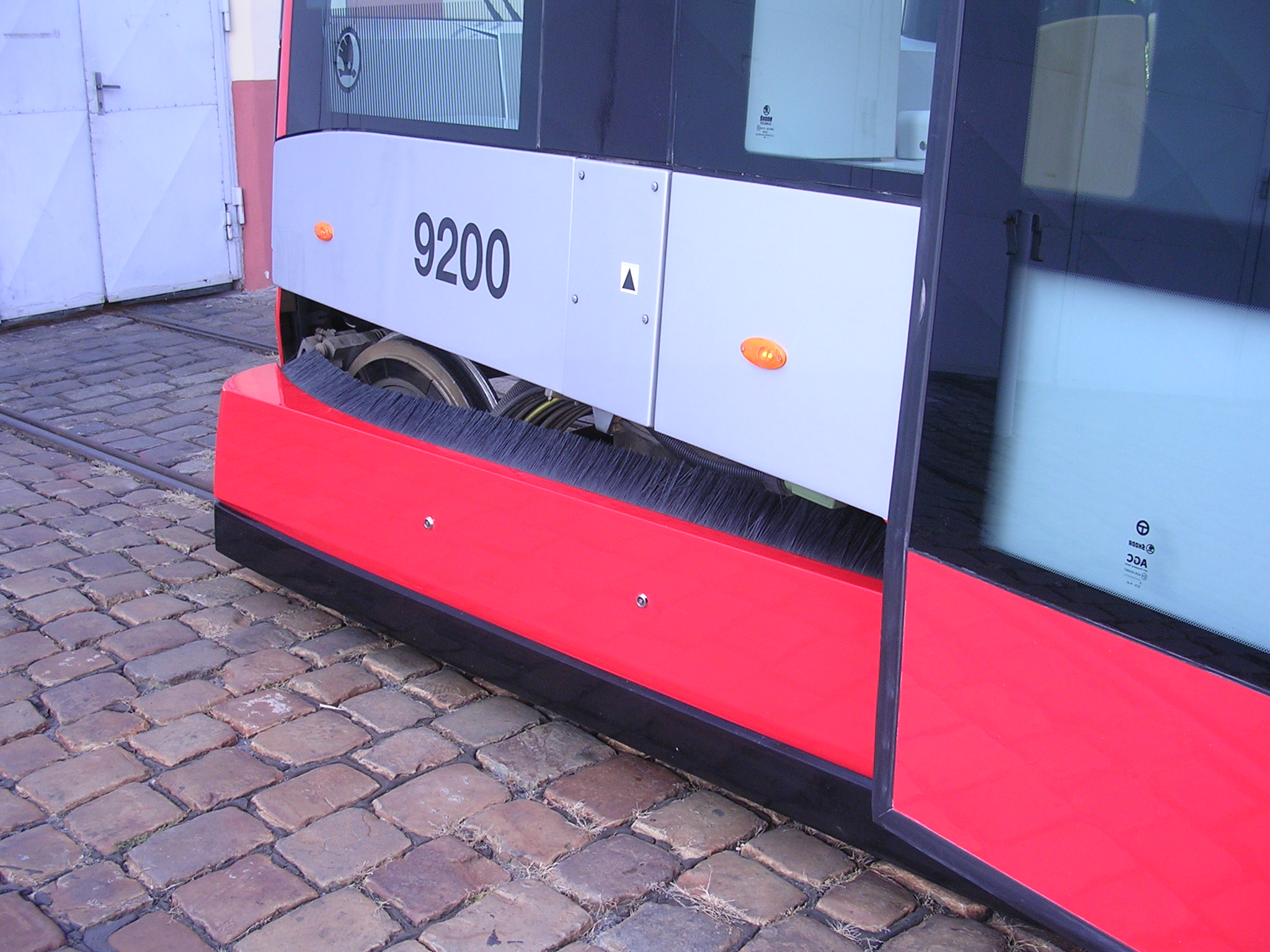 Střešovice, Prague, the Czech Republic. Open Doors Day in Střešovice tram depot and transport museum. Tram Škoda 15T.